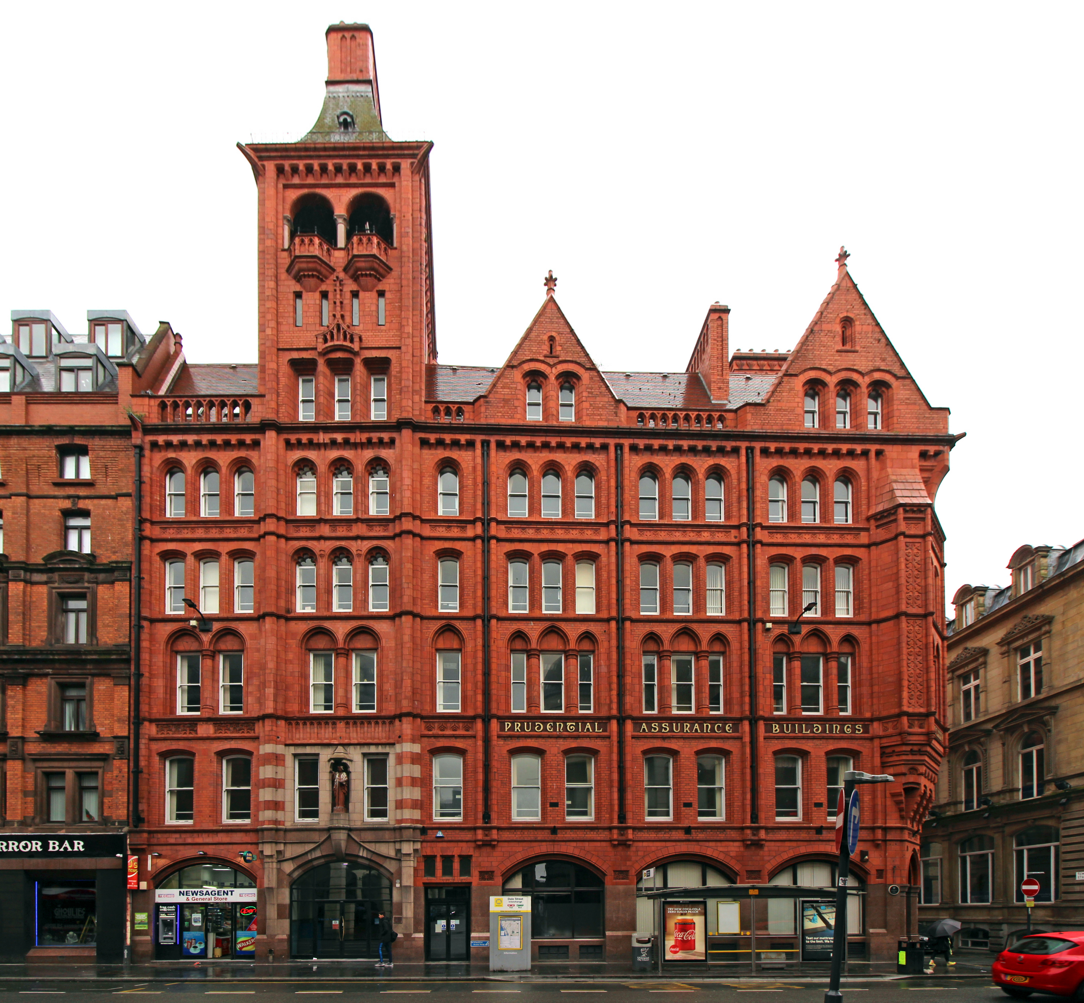 Front elevation on Dale Street. Grade II red sandstone building by Alfred Waterhouse.